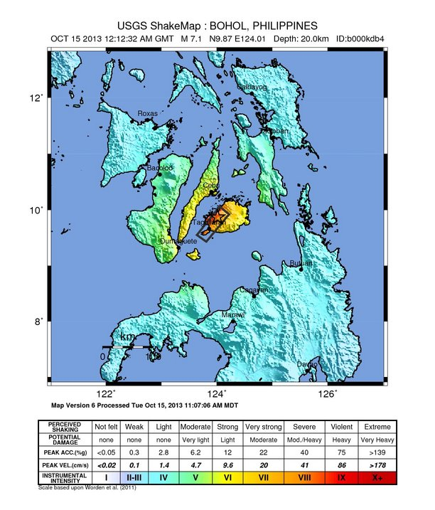 7.2 Bohol, Philippines quake